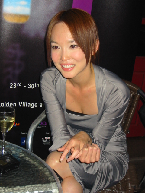 Photo of Fann Wong at the Asian Festival of First Films Gala Reception.